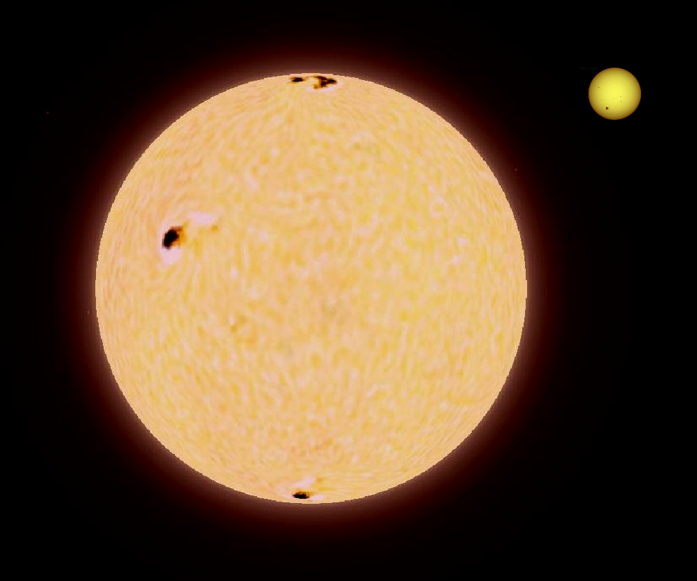 Pollux and Sun in scale.